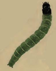 Stainton’s Natural History of the Tineina (1855–1873): Depressaria dictamnella larva